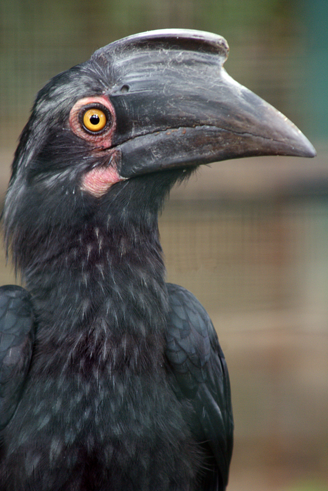 An adult female Black Hornbill at Kuala Lumpur Bird Park, Malaysia.